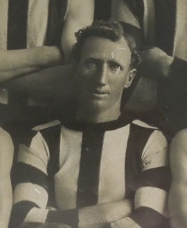 Photograph of Ernie Lumsden in 1919